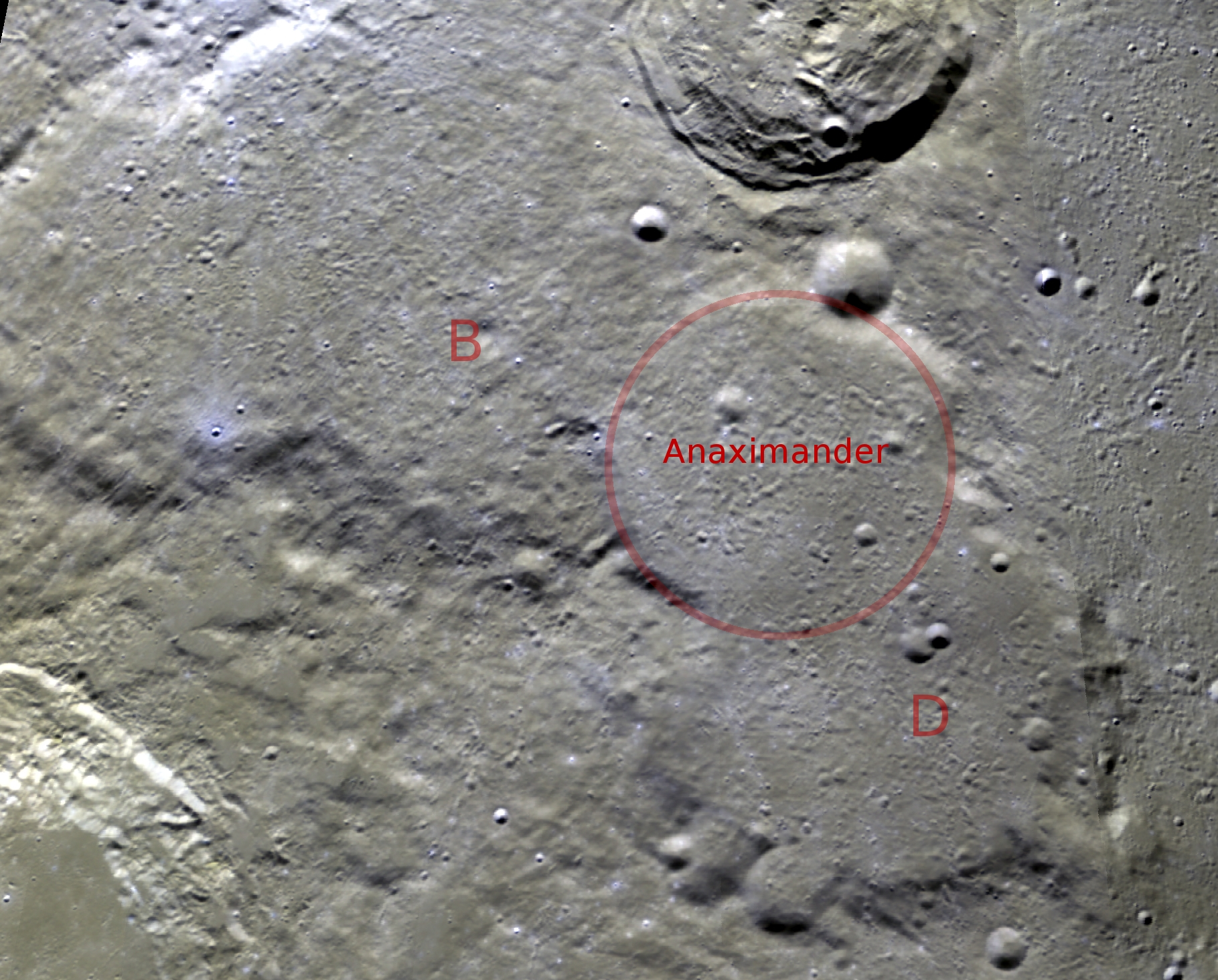 Anaximander crater in the northern region of the Moon. The largest Anaximander satellite craters are marked (B and D). To the north about half of Carpenter crater can be seen and to the southwest Pythagoras crater can be hinted. Cropped and annotated version (by uploader) of computer generated image by PDS MAP-A-PLANET.